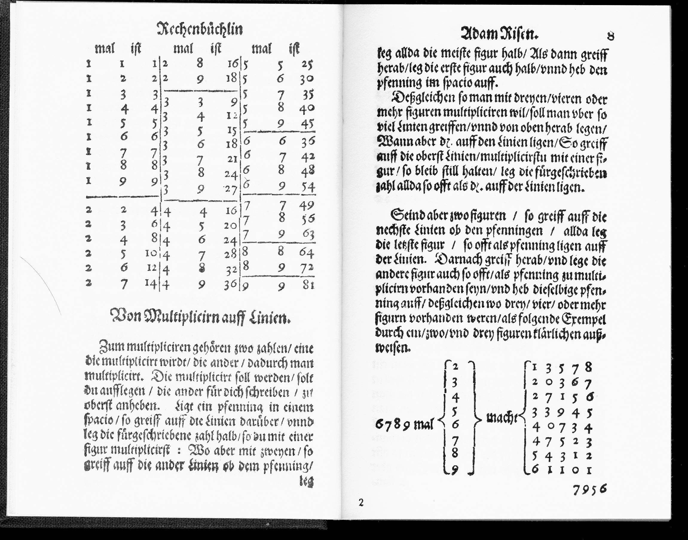 This is a scan of the historical document